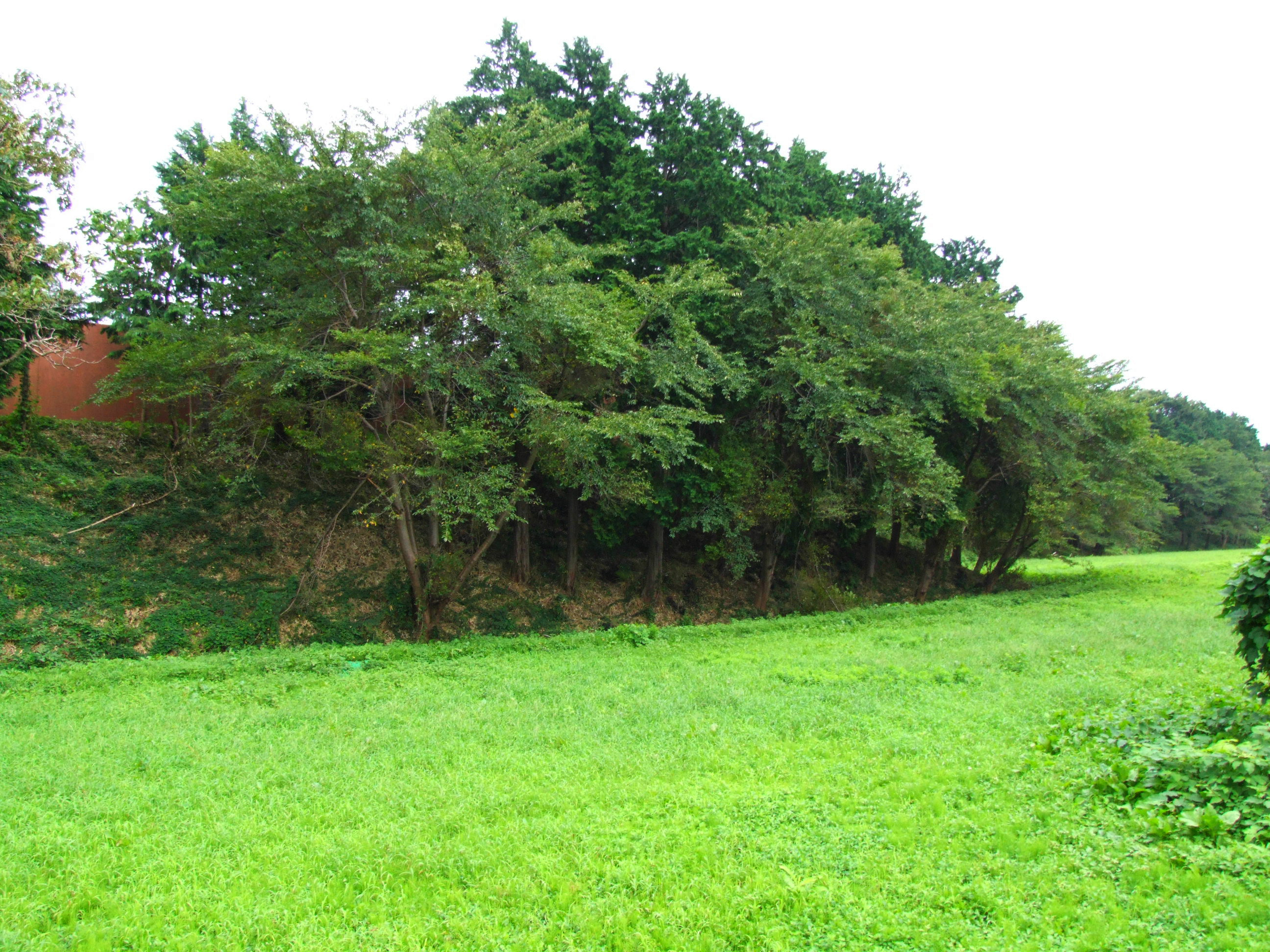 Ruin of Bank and moat of Wakabayashi Castle